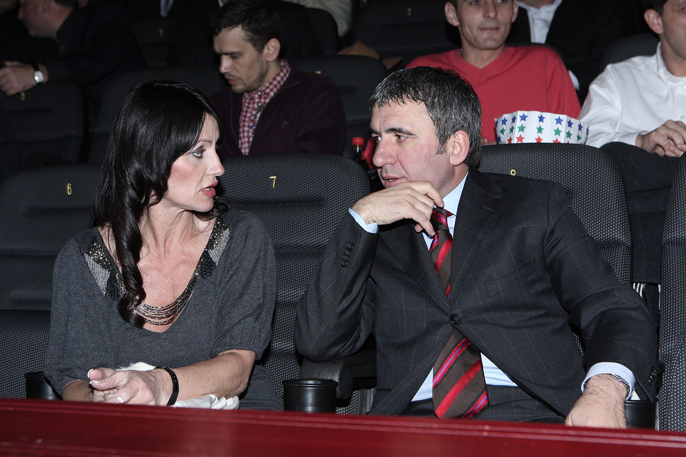 Hagi and Nadia